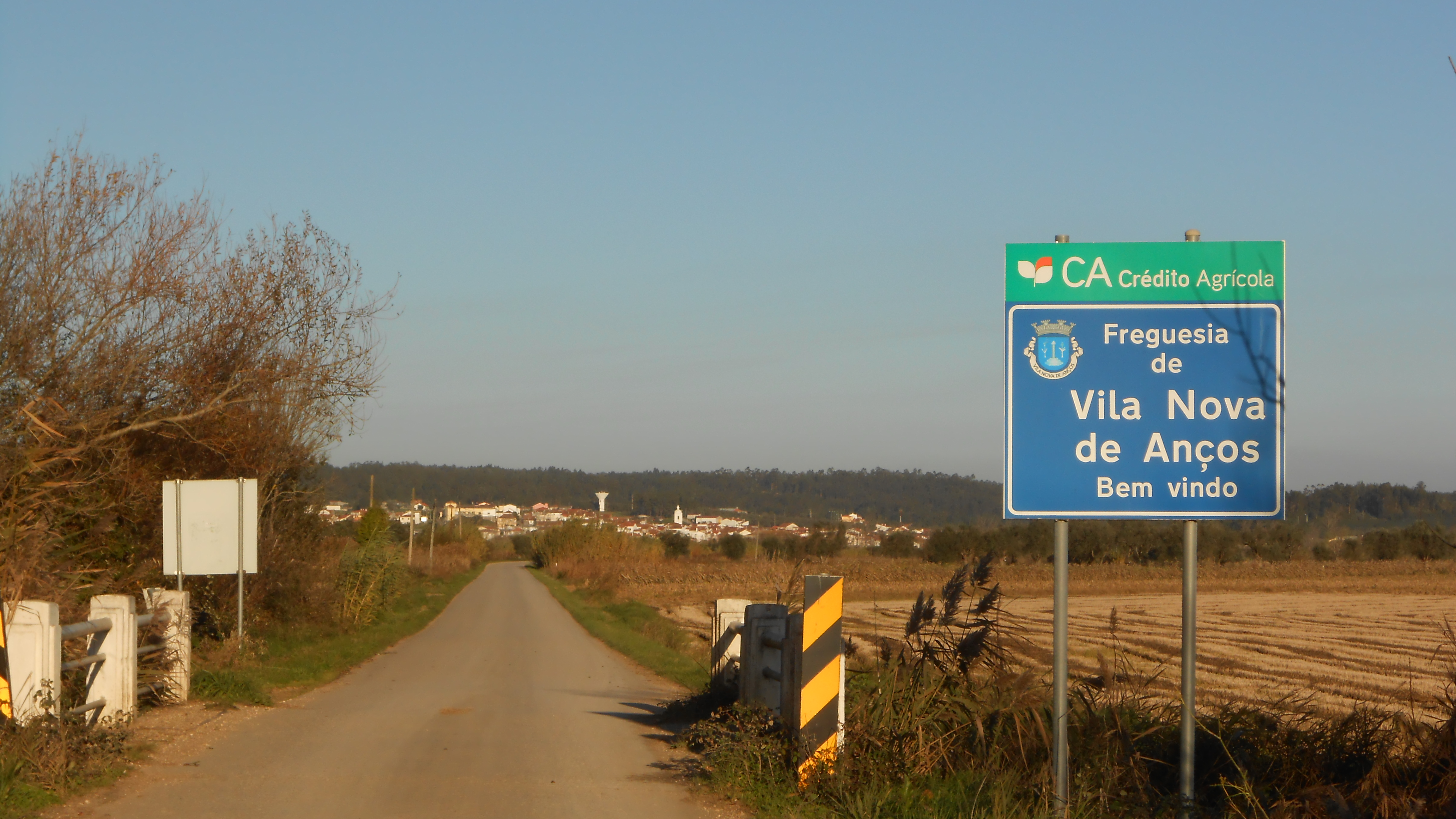 Entrance sign to the parish of Vila Nova de Anços, coming from Cercal. In the back we see the town of Vila Nova de Anços.